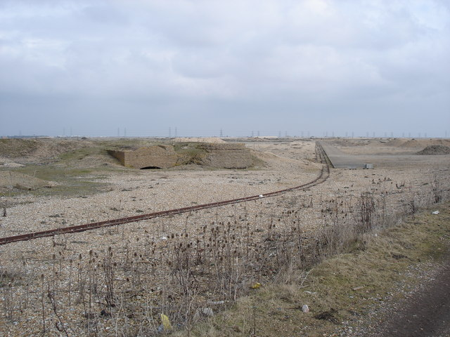 Narrow gauge railway lines on Lydd firing ranges